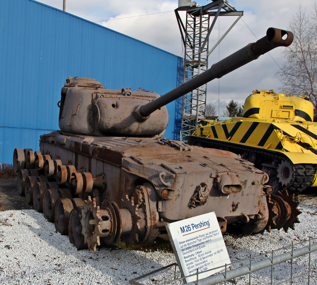 Salvaged pre-1944 M26 Pershing hull on display at Technikmuseum Sinsheim, Germany